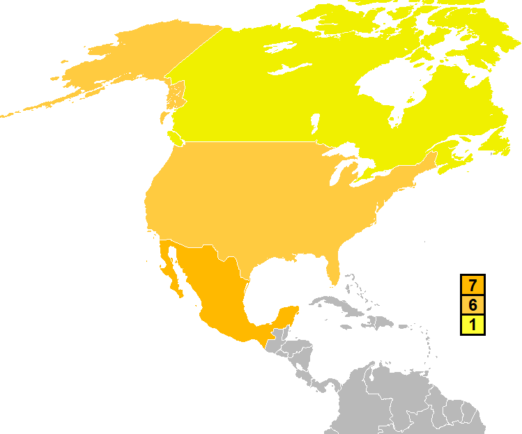 Winners of the CONCACAF Gold Cup up to 2014